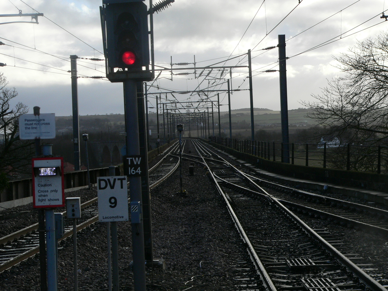 Looking south from Berwick-upon-Tweed station onto the Royal Border Bridge on 25 March 2005 with loops of TPWS in the track.